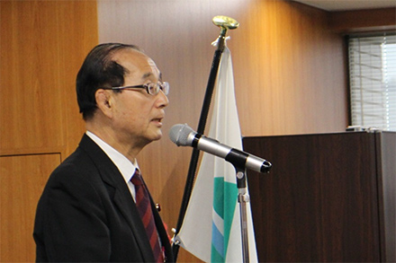 Yoshiaki Harada, Minister of the Environment, addressed at the Central Government Building No.5 in Chiyoda Ward, Tōkyō Metropolis on October 3, 2018.